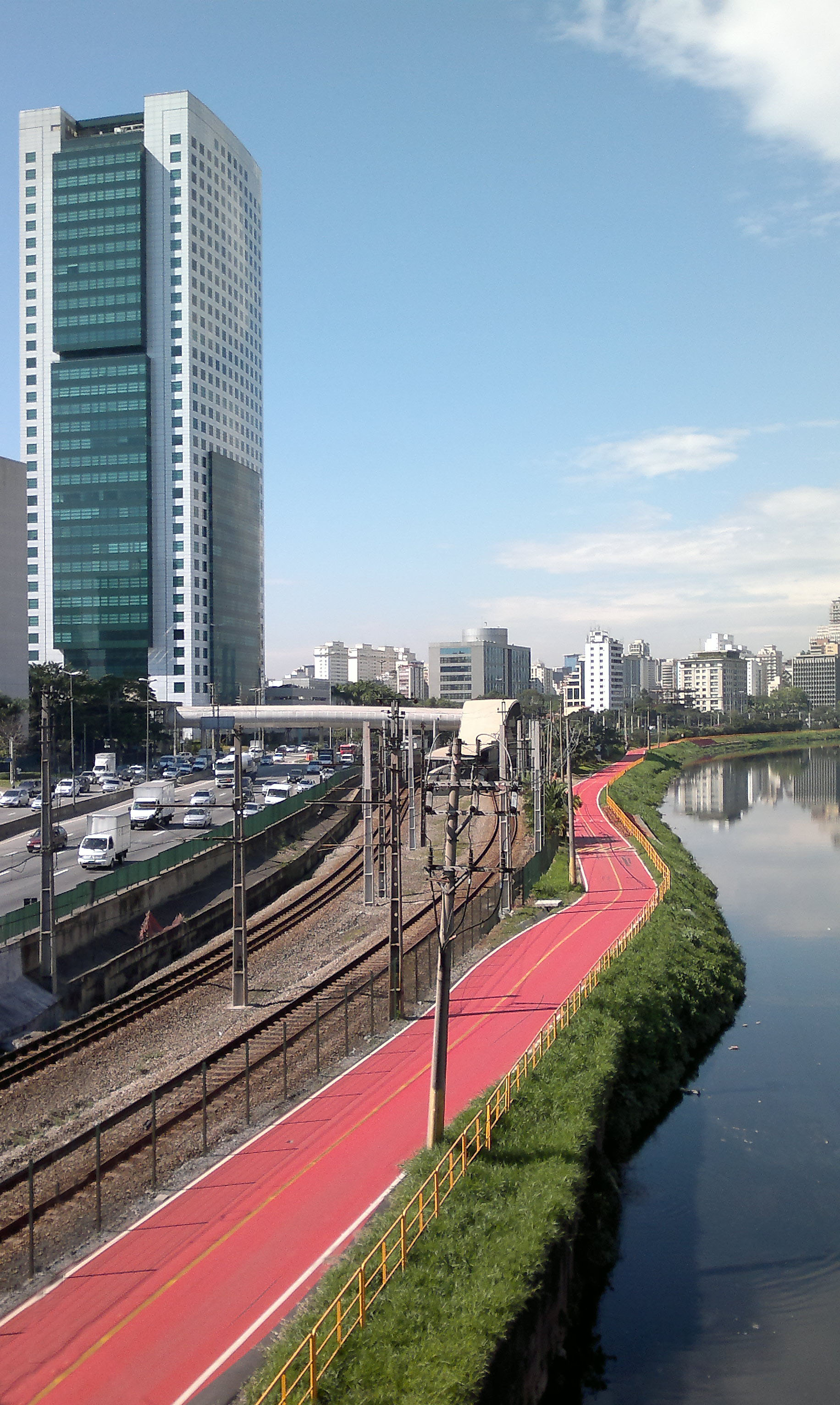 The Rio Pinheiros Bicycle Trail, Sao Paulo, Brazil 2010